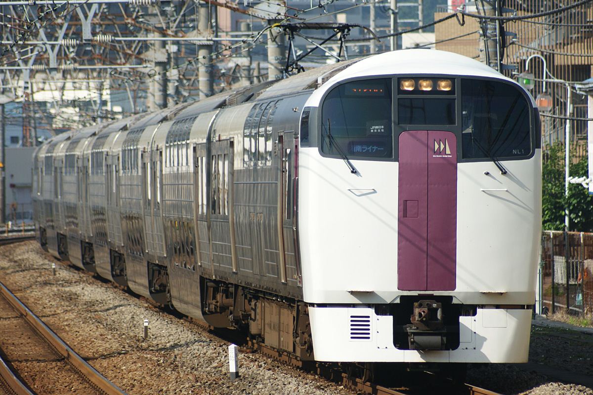 JR East 215 series EMU, "Shonan-liner".